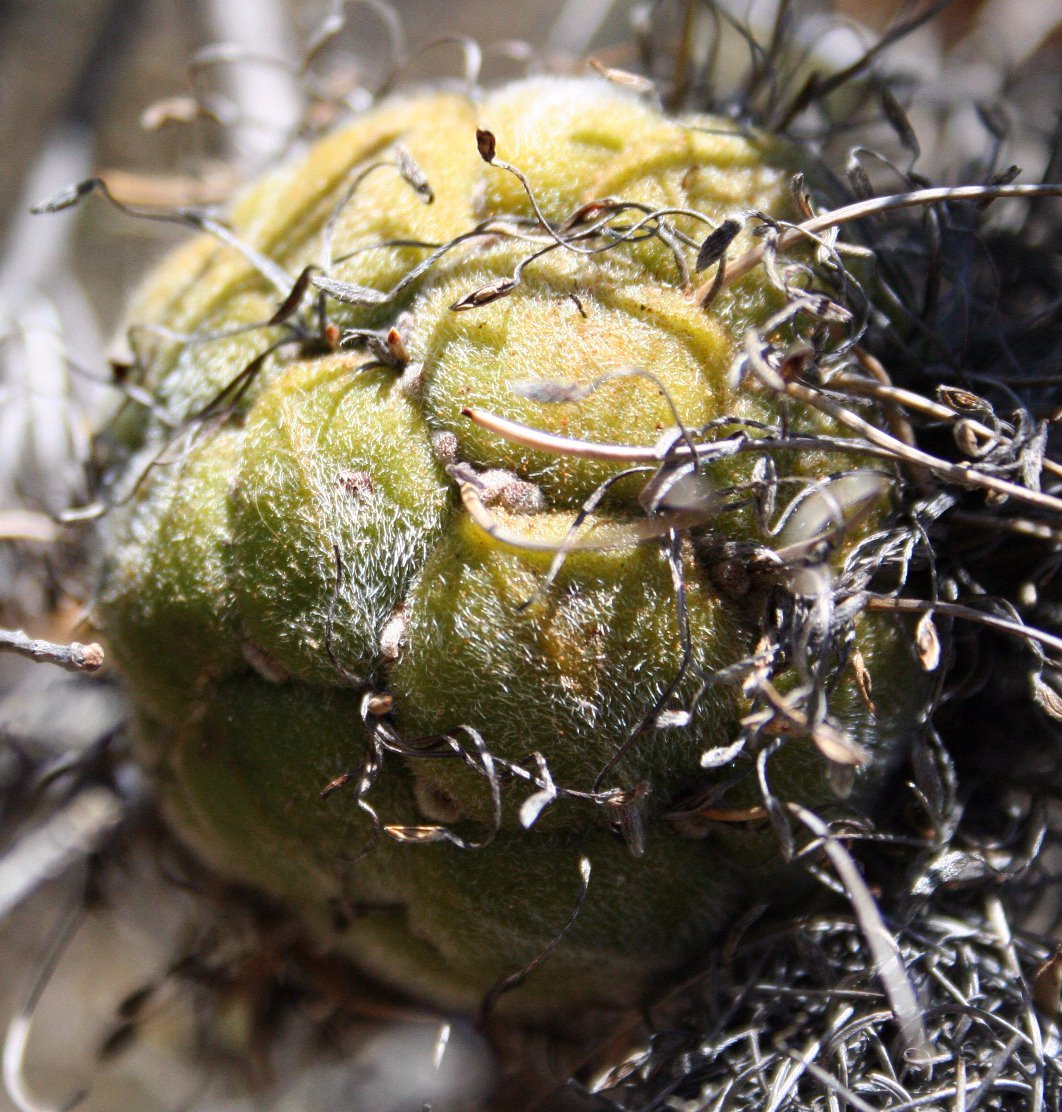 Banksia violacea young follicles - Wheatebelt